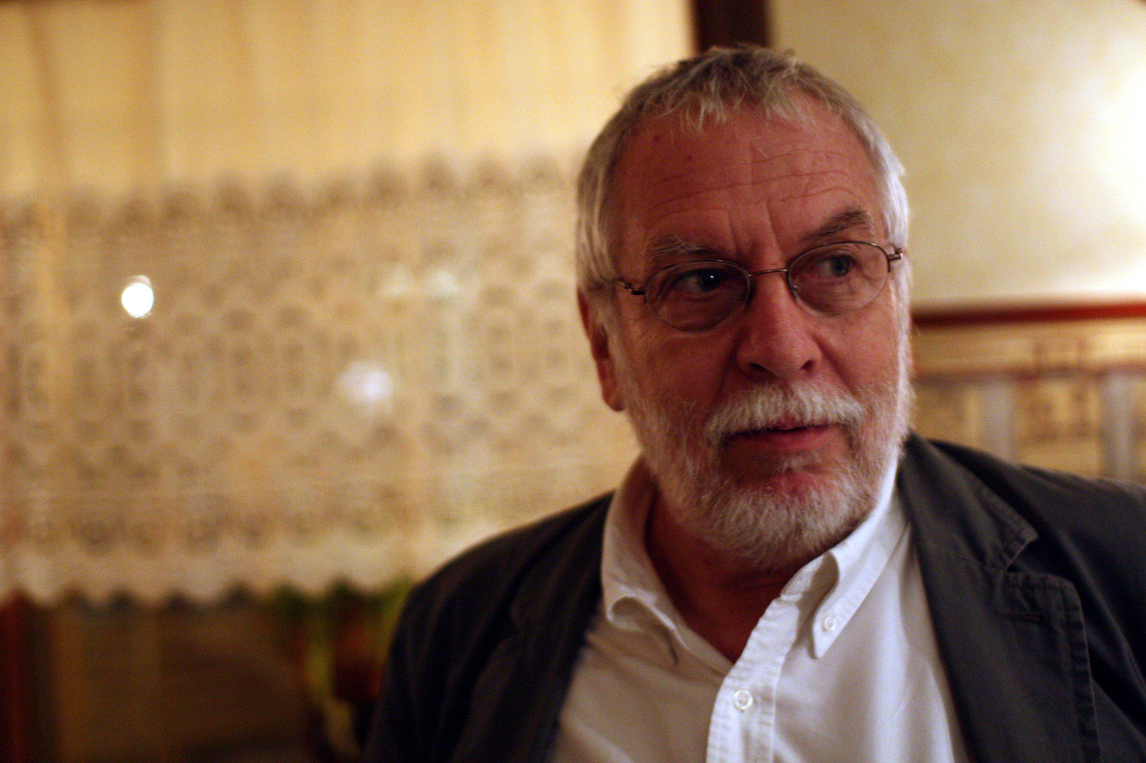 Nolan Bushnell in 2009.